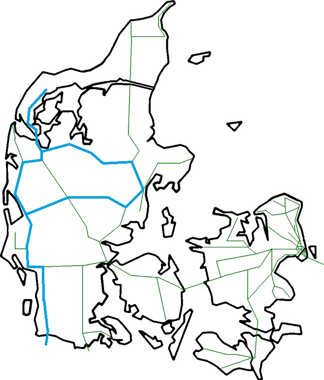 Map of railways in Denmark with lines served by Arriva in turkis.